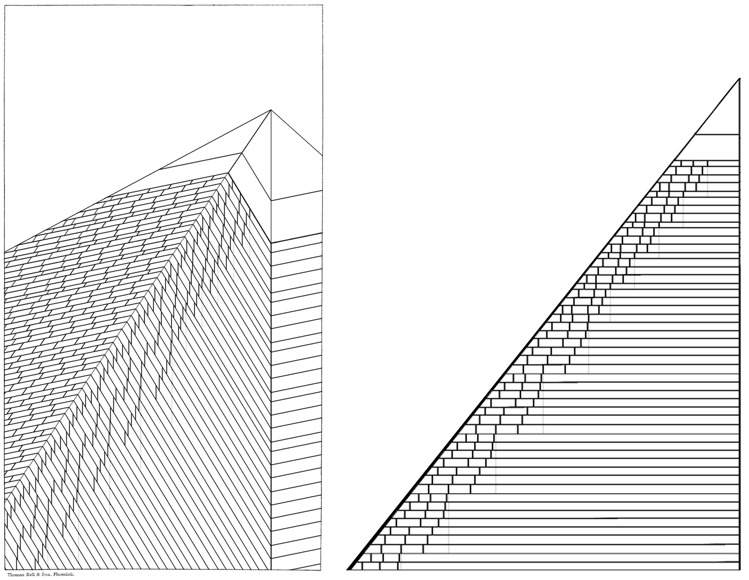 Post-pyramidion construction